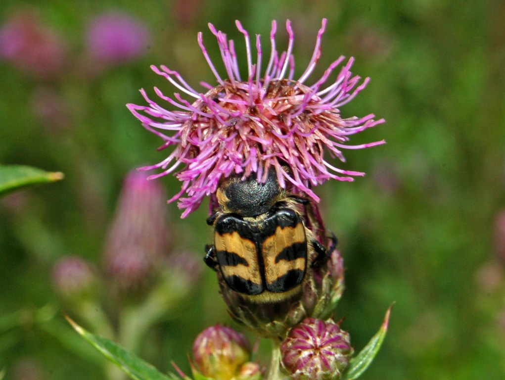 Trichius fasciatus